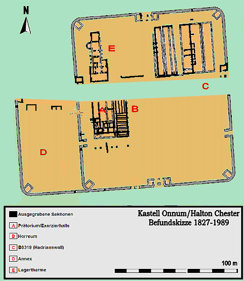 Findings sketch of the fort Holten Chester / Onnum (GB), 1827-1989.